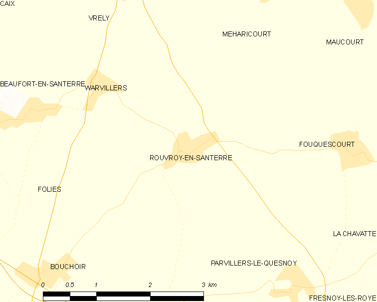 Map of French municipality Rouvroy-en-Santerre